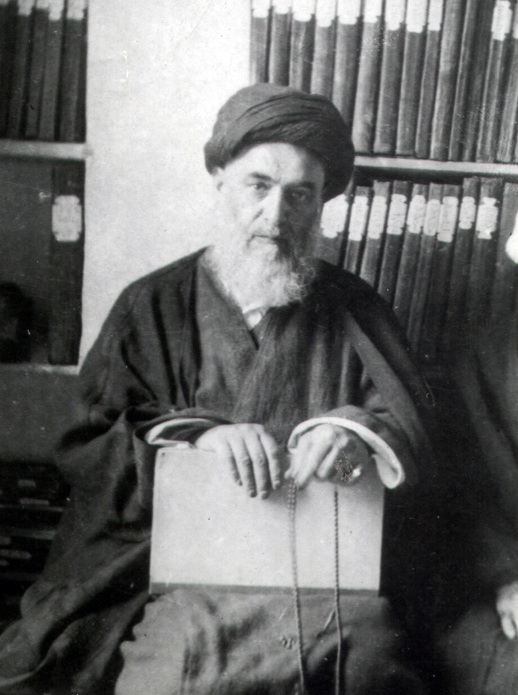 Sayyed Ahmad Hosseini Taleghani Father Jalal Al-e-Ahmad